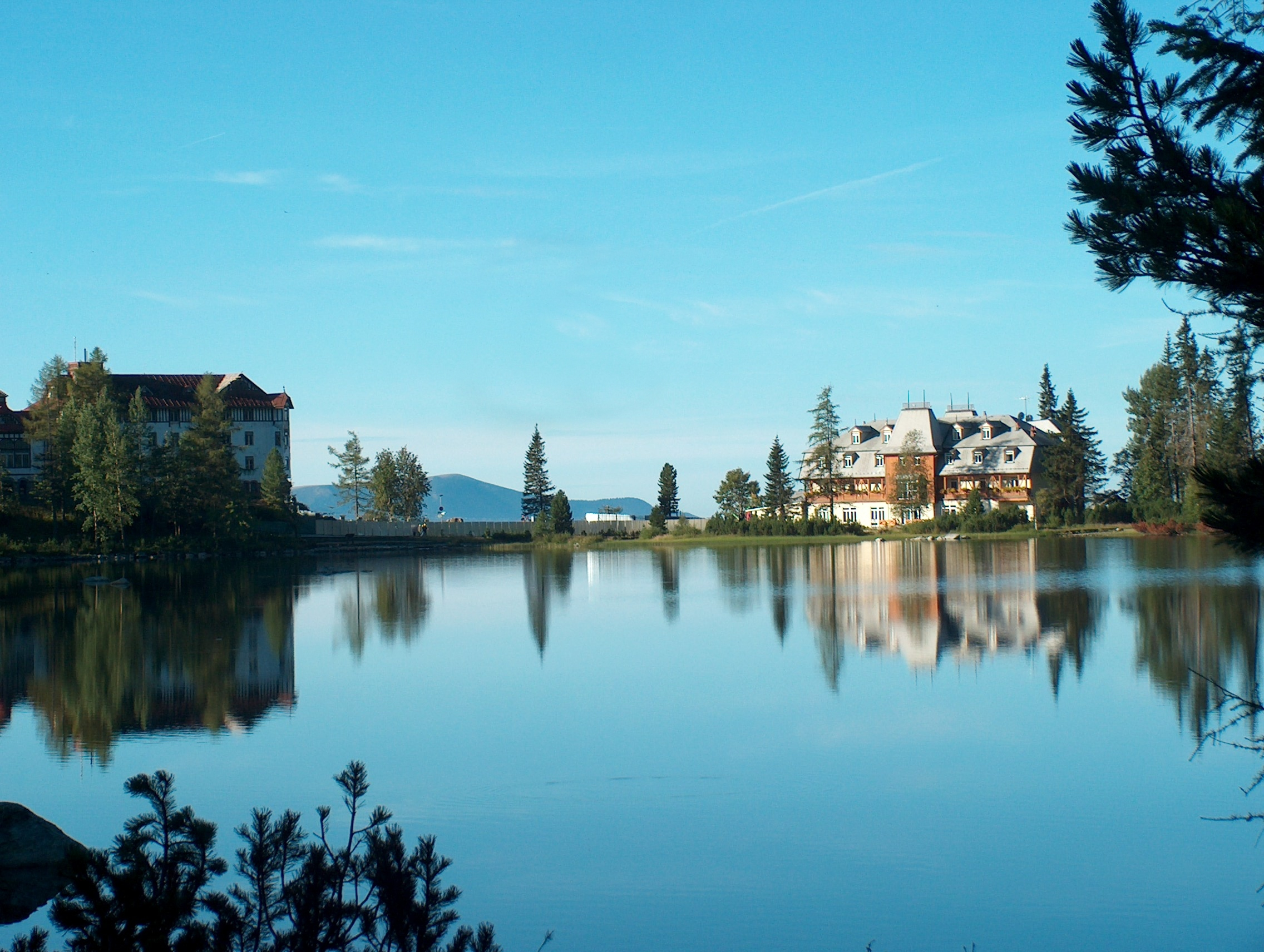 Štrbské pleso